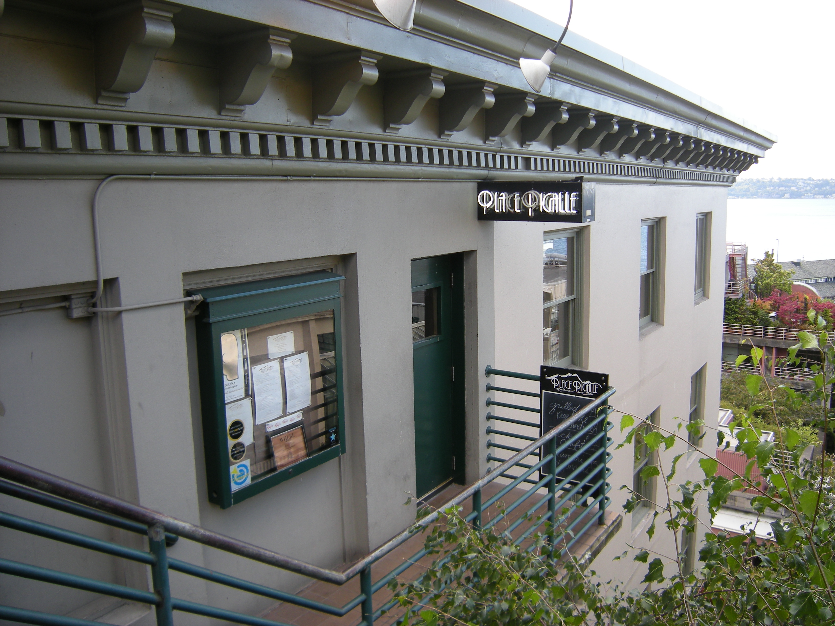 Place Pigalle, Pike Place Market, Seattle, Washington, U.S. The now-elegant restaurant was, until the late 1970s, a rather rowdy bar and universally referred to as the "Pig Alley".